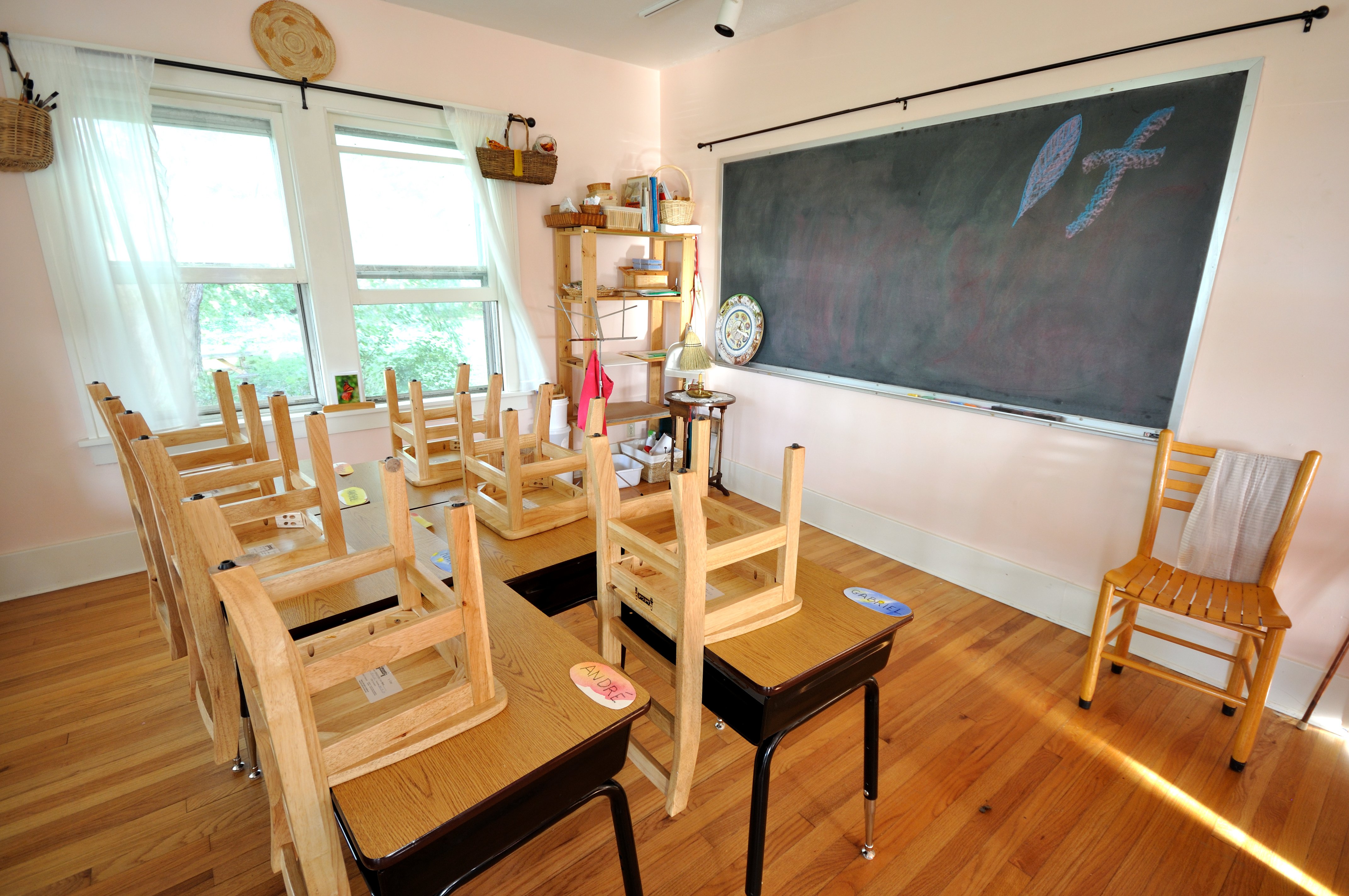 Empty Waldorf classroom.